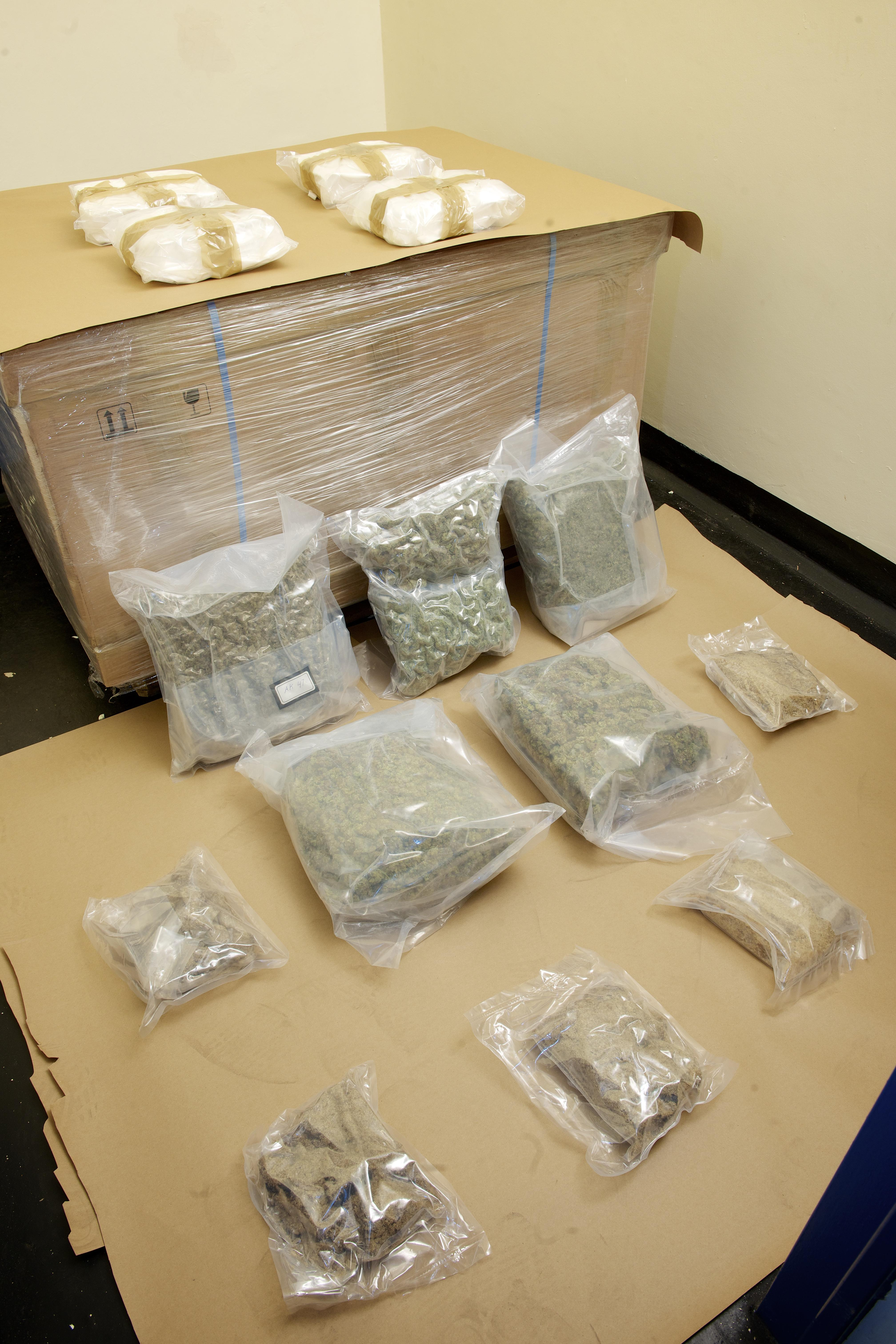 Drugs worth up to £30 million have been seized in what seasoned detectives are describing as the largest hauls in their careers. Cannabis, cocaine and MDMA, more commonly known as Ecstasy, weighing almost 200 kilograms were uncovered at a unit on the Maybrook industrial estate in Brownhills as part of an intelligence led policing operation. Officers swooped on the unit at around 5pm on Wednesday (27 November) but details have only today been released West Midlands Police following a full assessment of the haul by forensic investigators, drugs experts and the force’s top detectives. Experts continue to chemically analyse the substances. Conservative estimates put the drugs value at £10 million but purity tests could see the value of the seizure rocket to £30 million.